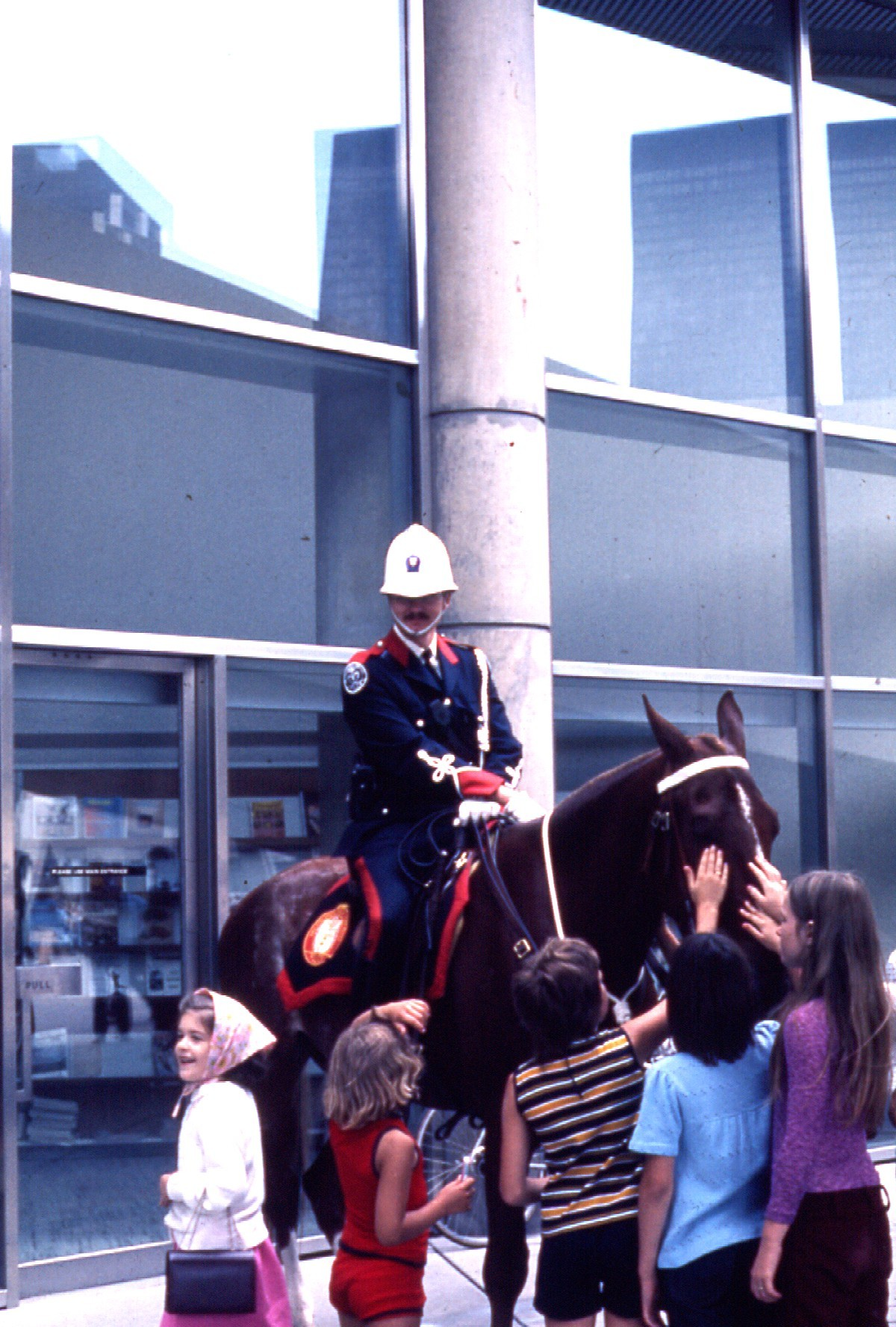 Mounted Toronto Police officer on Nathan Phillips Square, in front of the New City Hall.